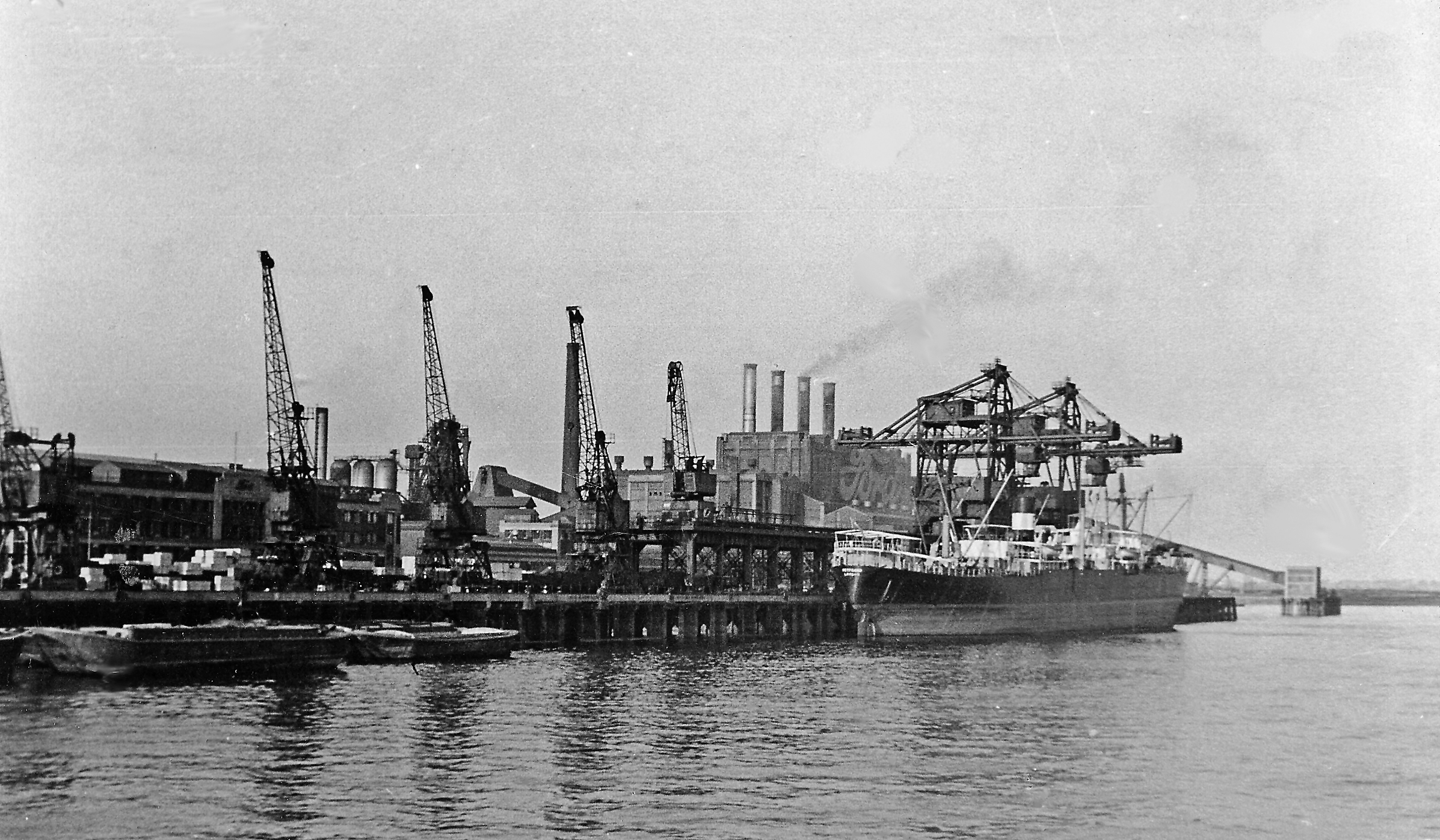 Jetty on Thames serving great Ford Motor Works, Dagenham. View eastwards from a pleasure steamer on the way to Southend. Note the sizeable ship, perhaps being loaded with cars for export. There was a tremendous amount of interest on that three-hour trip down from Tower Pier to Southend Pier.